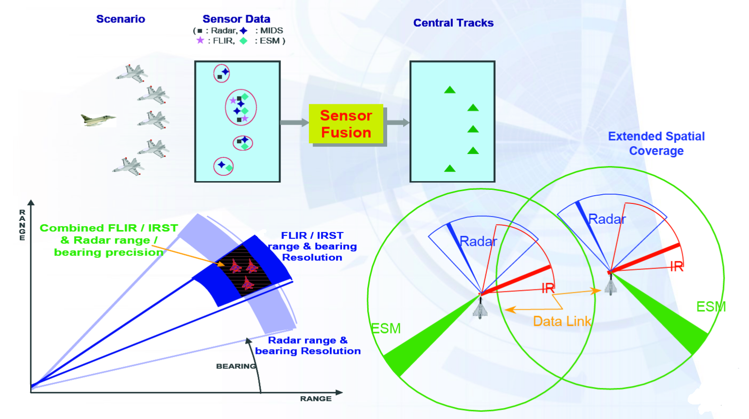 Sensor fusion in the Typhoon, from Eurofighter presentation to Norway